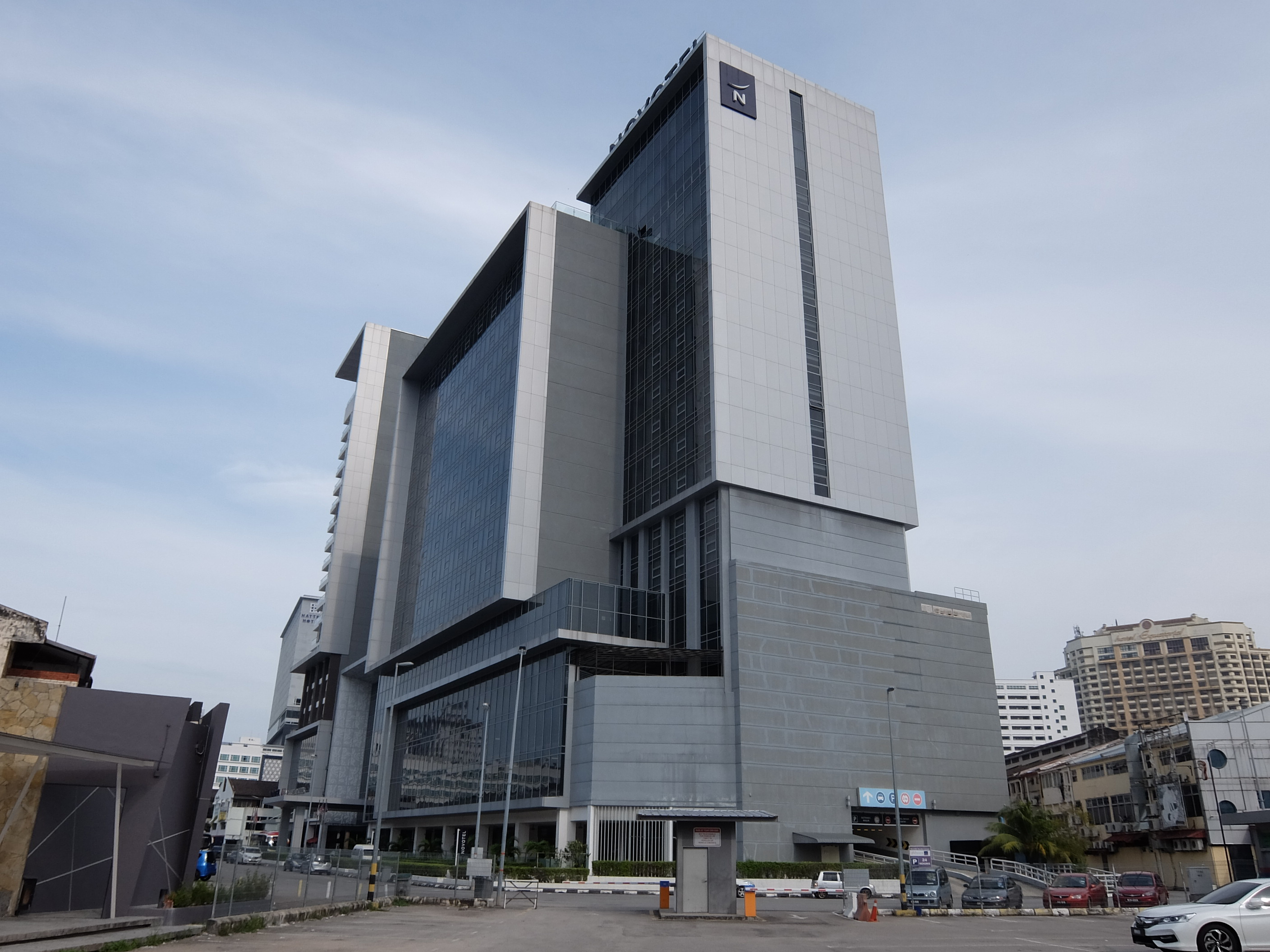 Novotel Hotel, Melaka City, Central Melaka, Melaka, Malaysia